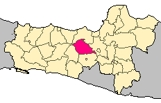 Location of Temanggung County in Central Java Province, Indonesia